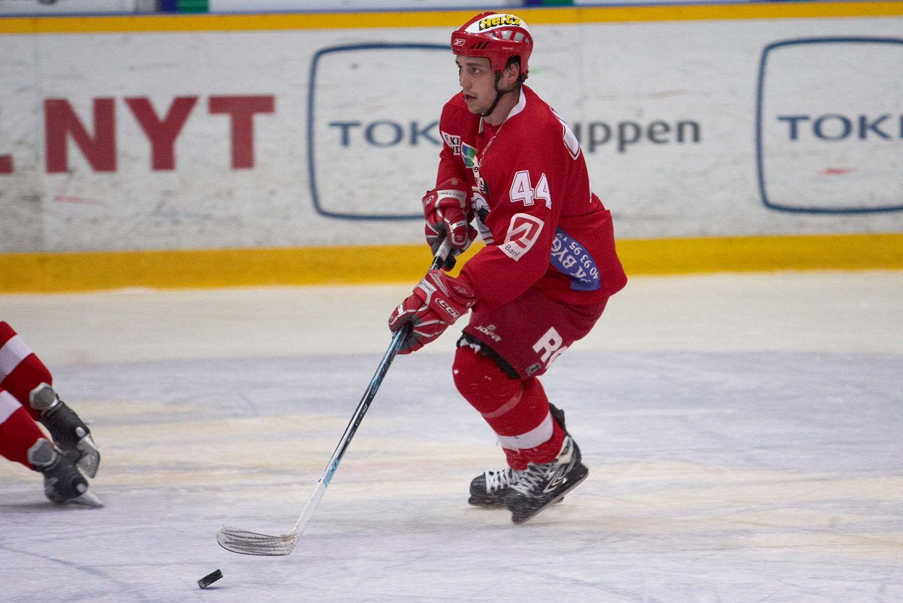 Mr. Nathan Lutz in action.